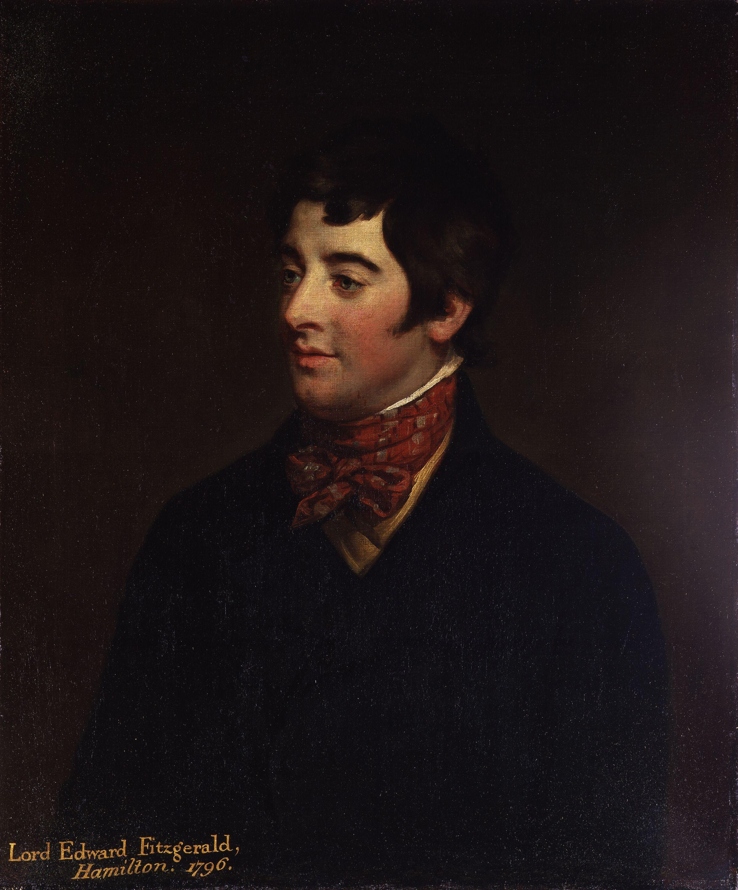 Lord Edward Fitzgerald, by Hugh Douglas Hamilton (died 1808). All images in this batch have been confirmed as author died before 1939 according to the official death date listed by the NPG.